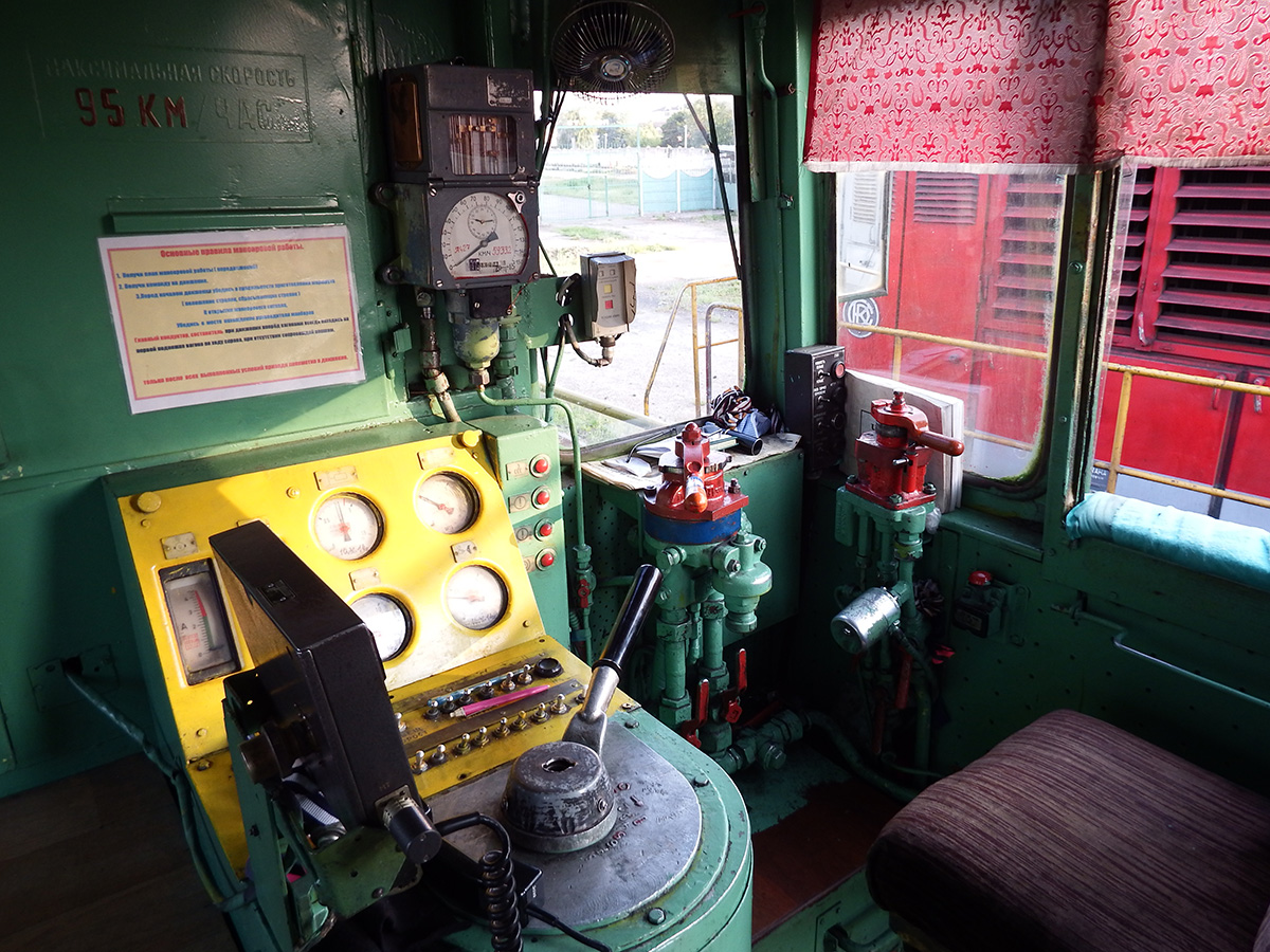 Driver's cabin of diesel locomotive ChME3-6163